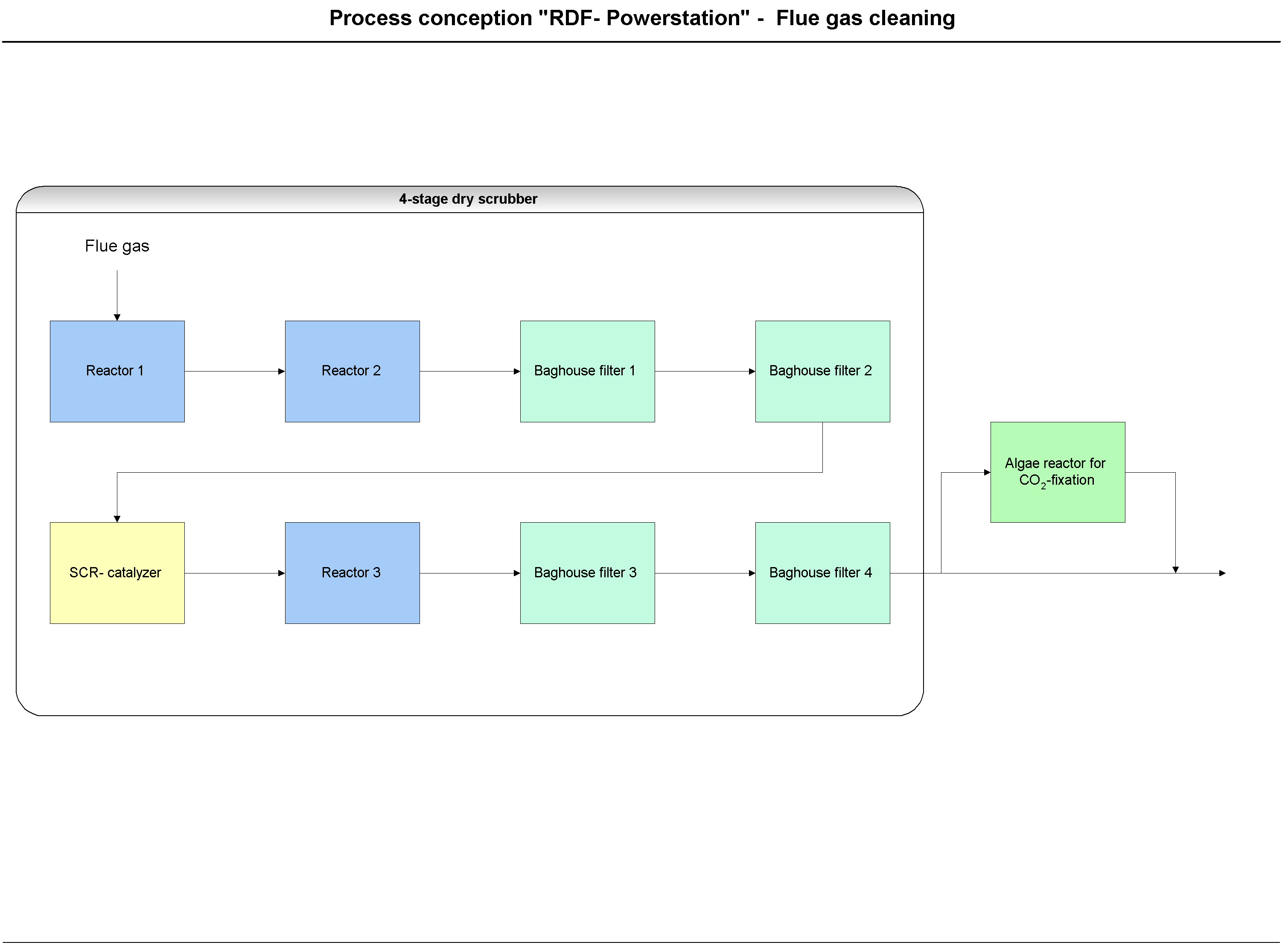 Process diagram of a multistage flue gas purifaction